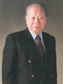 Jun'ichi Shimmura is a politician in Japan. (This image is available from the website of the Dai Nippon Hotokusha. This website says "Creative Commonsの表示（CC BY）として公開します".)